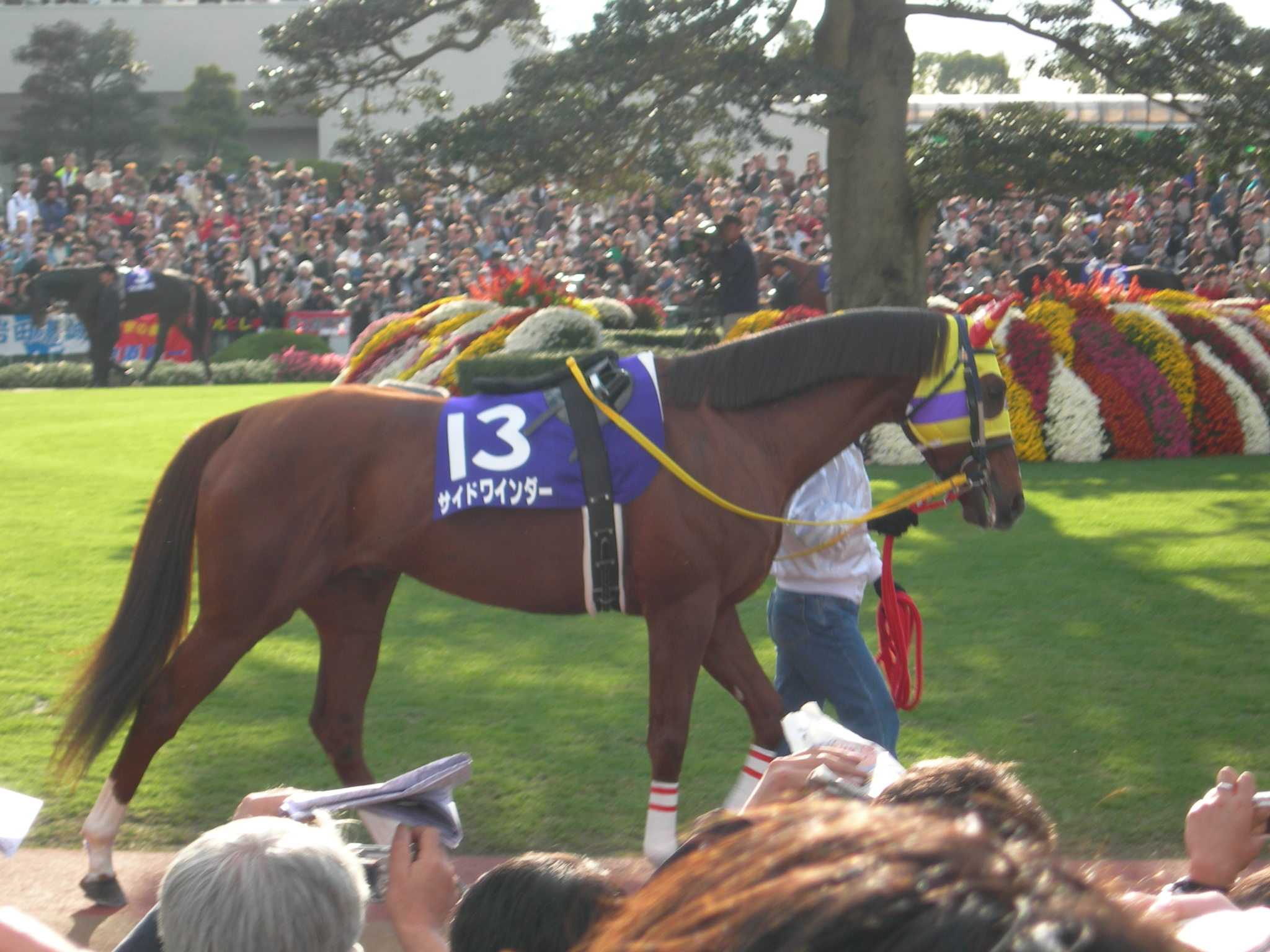 Side winder (Racehorse of Japan). taken in 2005.